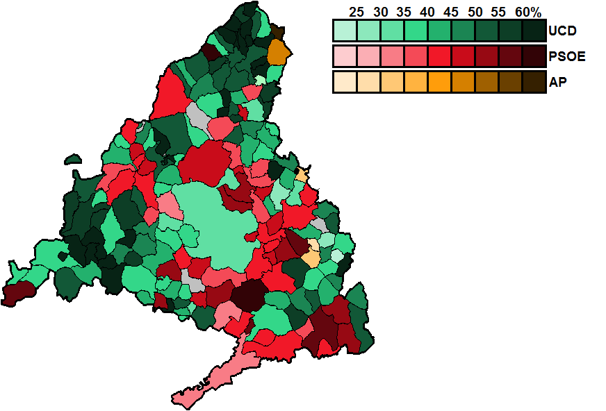 Most-voted party in Madrid municipalities, showing vote share obtained, in the Spanish general election, 1977.